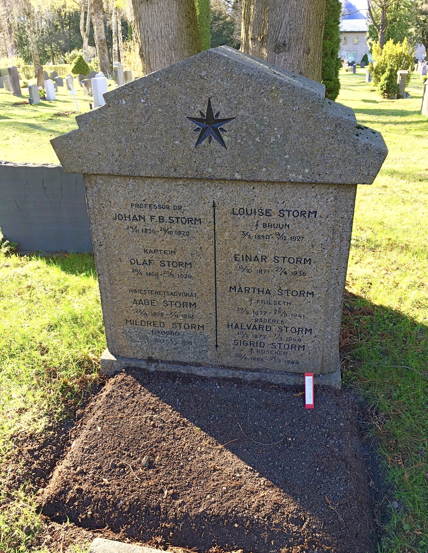 Halvard Storm Headstone. Vestre Gravlund, Oslo, Norway